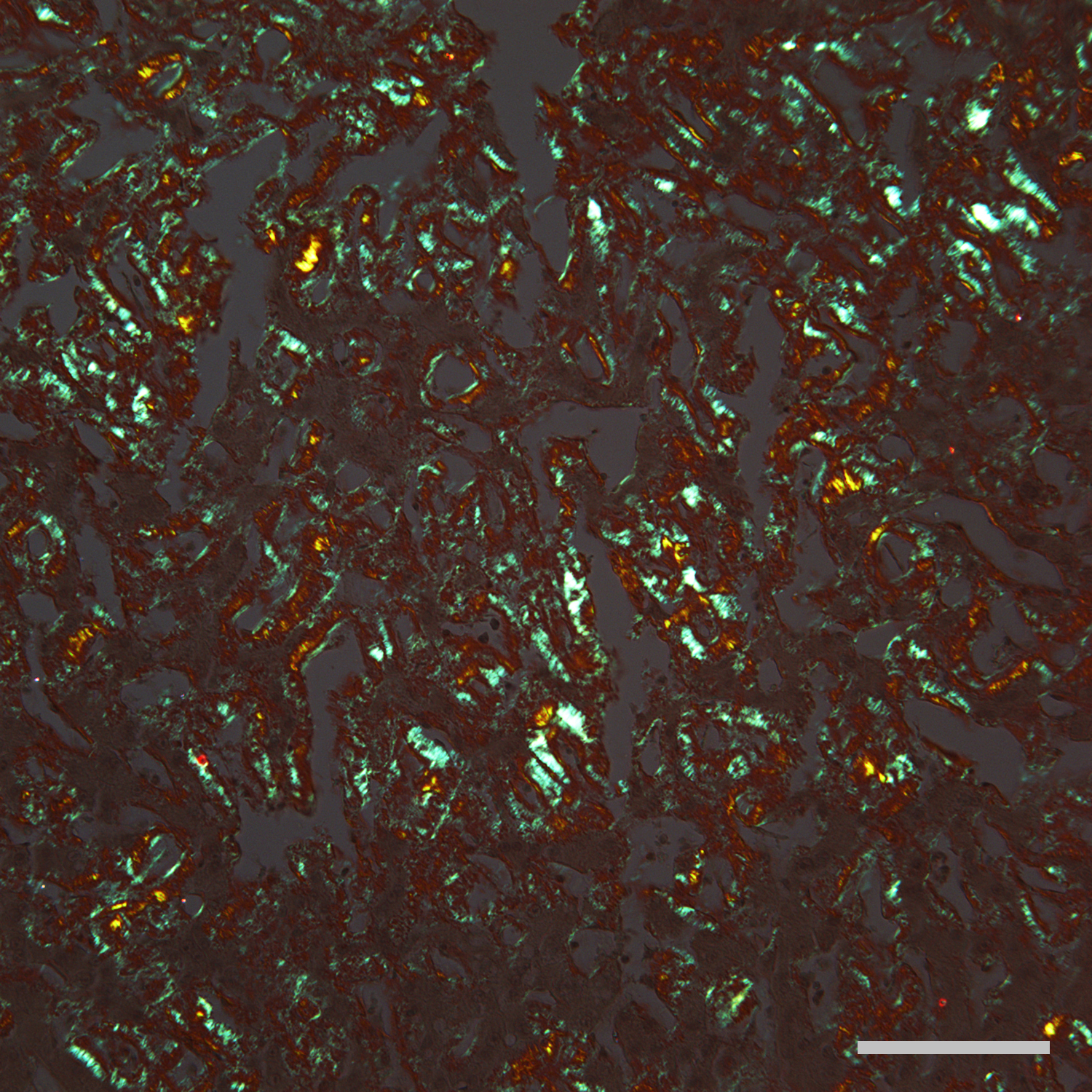 Photomicrograph of amyloid in a thin section of liver that has been stained with the dye Congo Red. When viewed with crossed polarizing light filters, amyloid glows with a typical orange-greenish birefringence. The photo was taken with a 20X microscope objective; the scale bar is 100 microns (0.1mm). Proteopathy